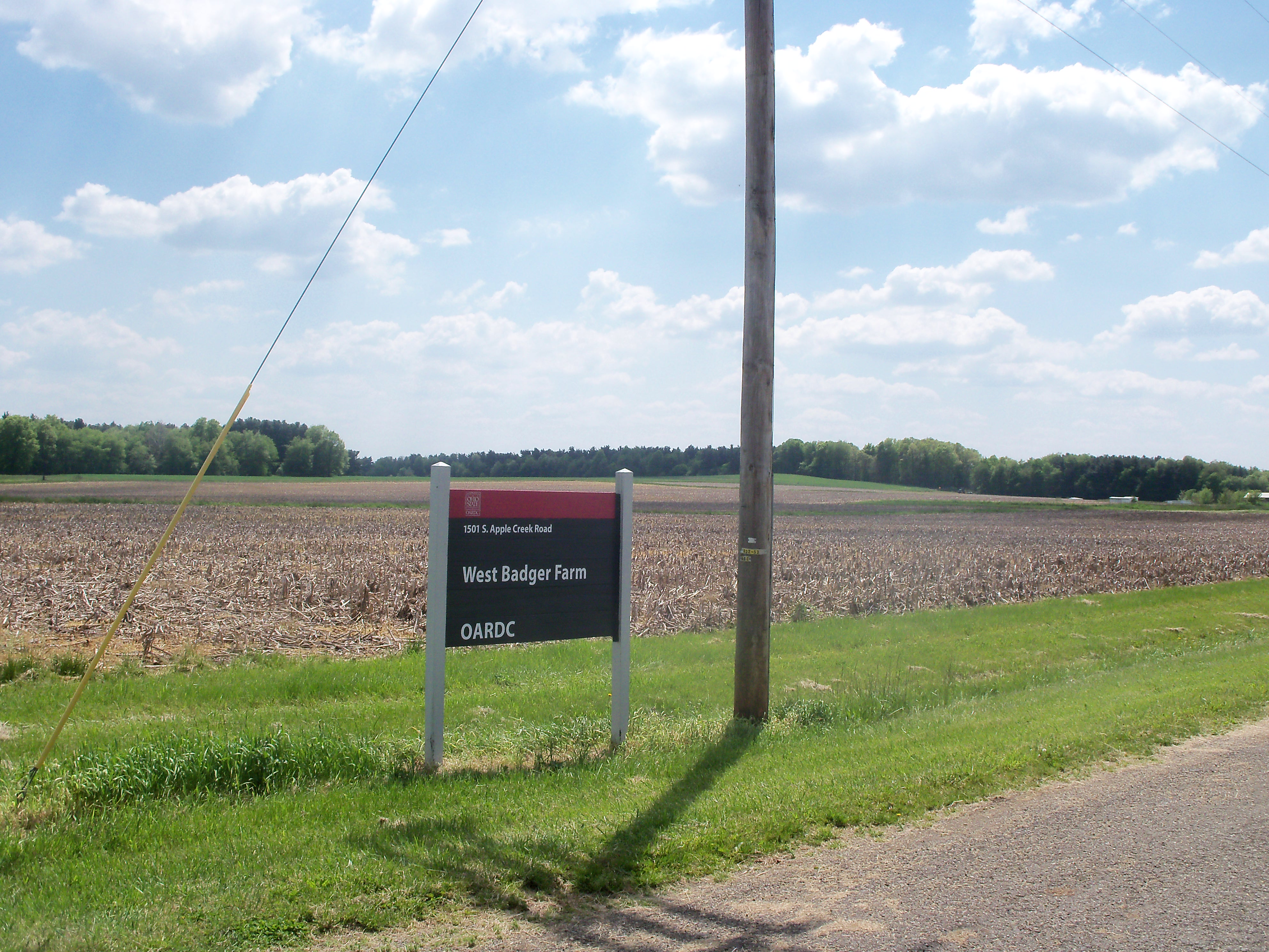 West Badger Farm in Wayne County, Ohio is a facility of the Ohio Agricultural Research and Development Center